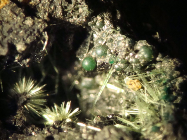 Cornubite (dark green balls, 0.3 mm max range of crystals) and Olivenite (pale green needles, size: 0.7 mm) Locality: Grande Mine (La Marqueza Mine), Marqueza, Arqueros Ag Mining District, La Serena, Elqui Province, Coquimbo Region, Chile FOV 3 x 2 mm aprox, analysed by Dr. J. Schluter (Hamburg University)